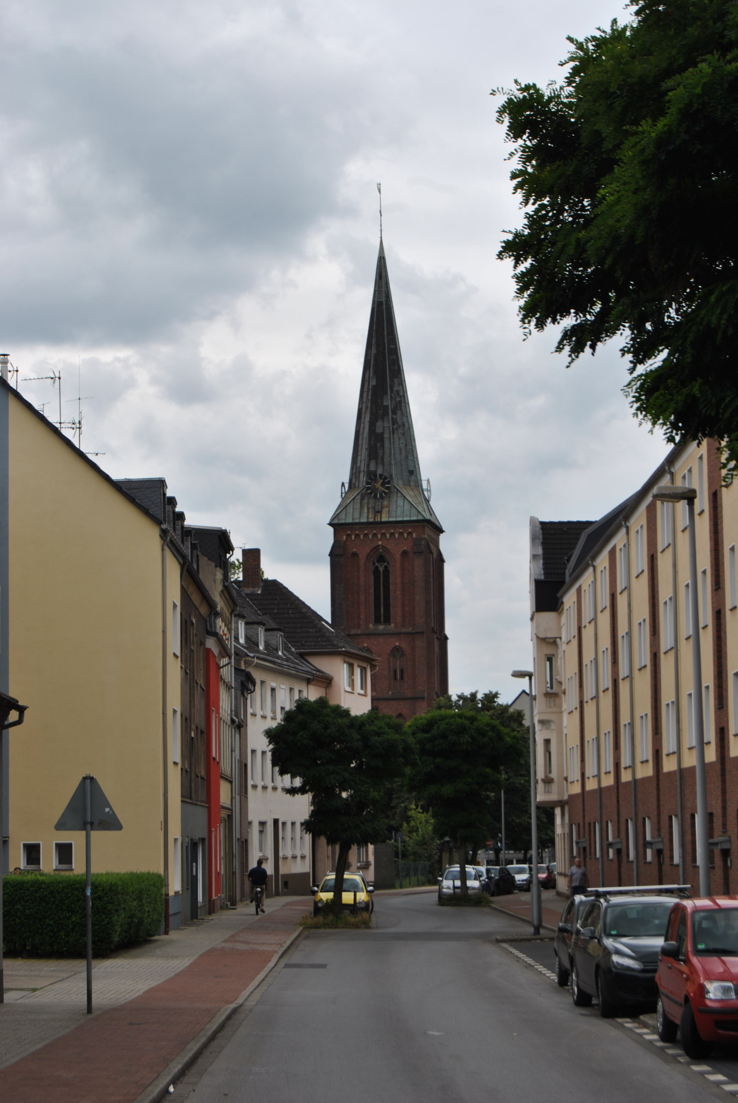 This photograph was taken with a Nikon D3000 This image shows a heritage building in Germany, located in the North Rhine-Westphalian city Duisburg. Kath. Kirche St. Joseph in Duisburg-Friemersheim